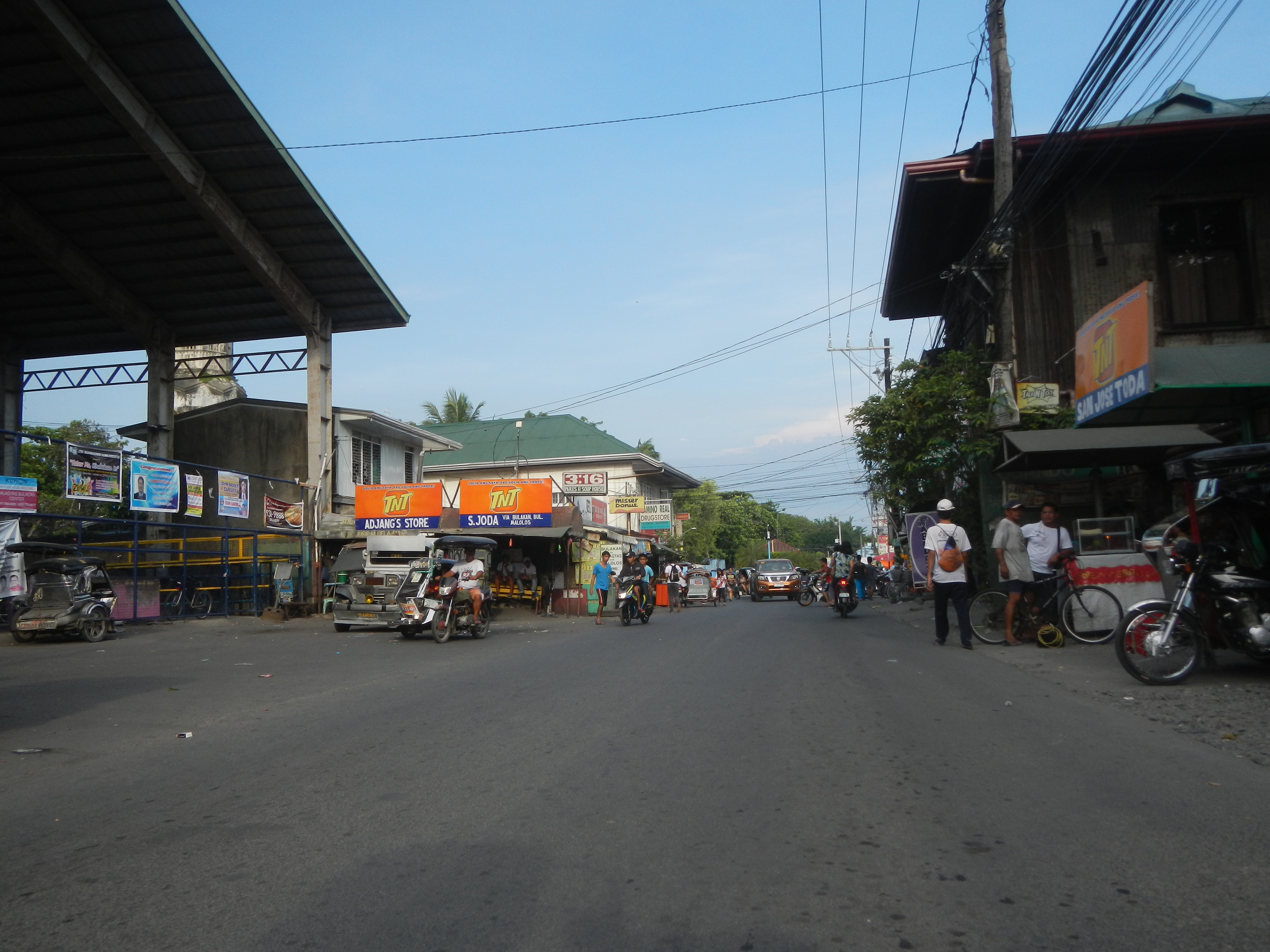 Vicente Enriquez & Josefa Ycasiano Ancestral House in Matungao, Bulakan, Bulacan Enriquez Vicente Enriquez - Josefa Ycasiano house The Vicente Enriquez - Josefa Ycasiano house inherited by Jacinto "Titong" Enriquez who married Milagros "Mila" Santiago of Malolos Spanish-era ancestral house, house of local food historian Mila Enriquez 14°47′51″N 120°52′40″E List of Cultural Properties of the Philippines in Bulakan, Bulacan from the Tabang, Guiguinto - San Francisco, Bulacan, Bulacan Municipal Road into the Balubad, Maysantol, San Jose and Bagumbayan, San Francisco, Bulakan, Bulacan Municipal Road to Matungao Provincial Road, Bulacan, Bulacan into Camino Real Provincial Road into the Pitpitan, San Nicolas, Maysantol and San Jose, Bulacan, Bulacan Provincial Barangay Matungao 14°48'17"N 120°53'13"E Matungao Bridge 14°48'12"N 120°52'48"E Santo Cristo Chapel 14°48'5"N 120°52'47"E San Jose 14°47'38"N 120°52'34"E Bulacan, Bulacan Bulacan province, (accessed from MacArthur Highway or Manila North Road interconnecting with Cagayan Valley Road, Baliuag-Pulilan-Guiguinto, Bulacan, Pan-Philippine Highway, also known as the Maharlika "Nobility/freeman" Highway) (Note: Judge Florentino Floro, the owner, to repeat, Donor Florentino Floro of all these photos hereby donate gratuitously, freely and unconditionally all these photos to and for Wikimedia Commons, exclusively, for public use of the public domain, and again without any condition whatsoever).